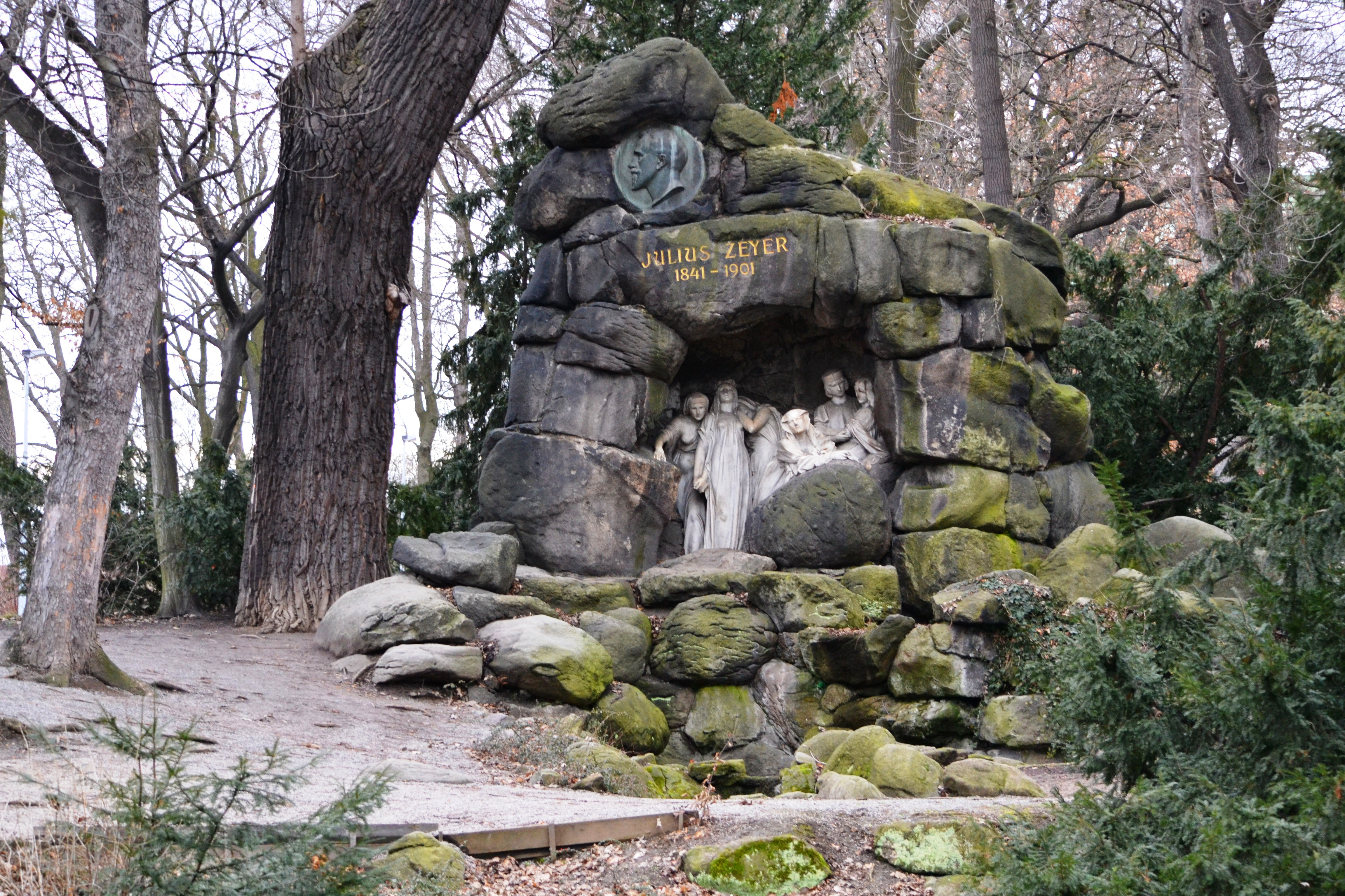 Julius Zeyer Monument, created as a cave with sculptures by Josef Mauder, Chotkovy sady, Prague, Czech Rep. (1913)